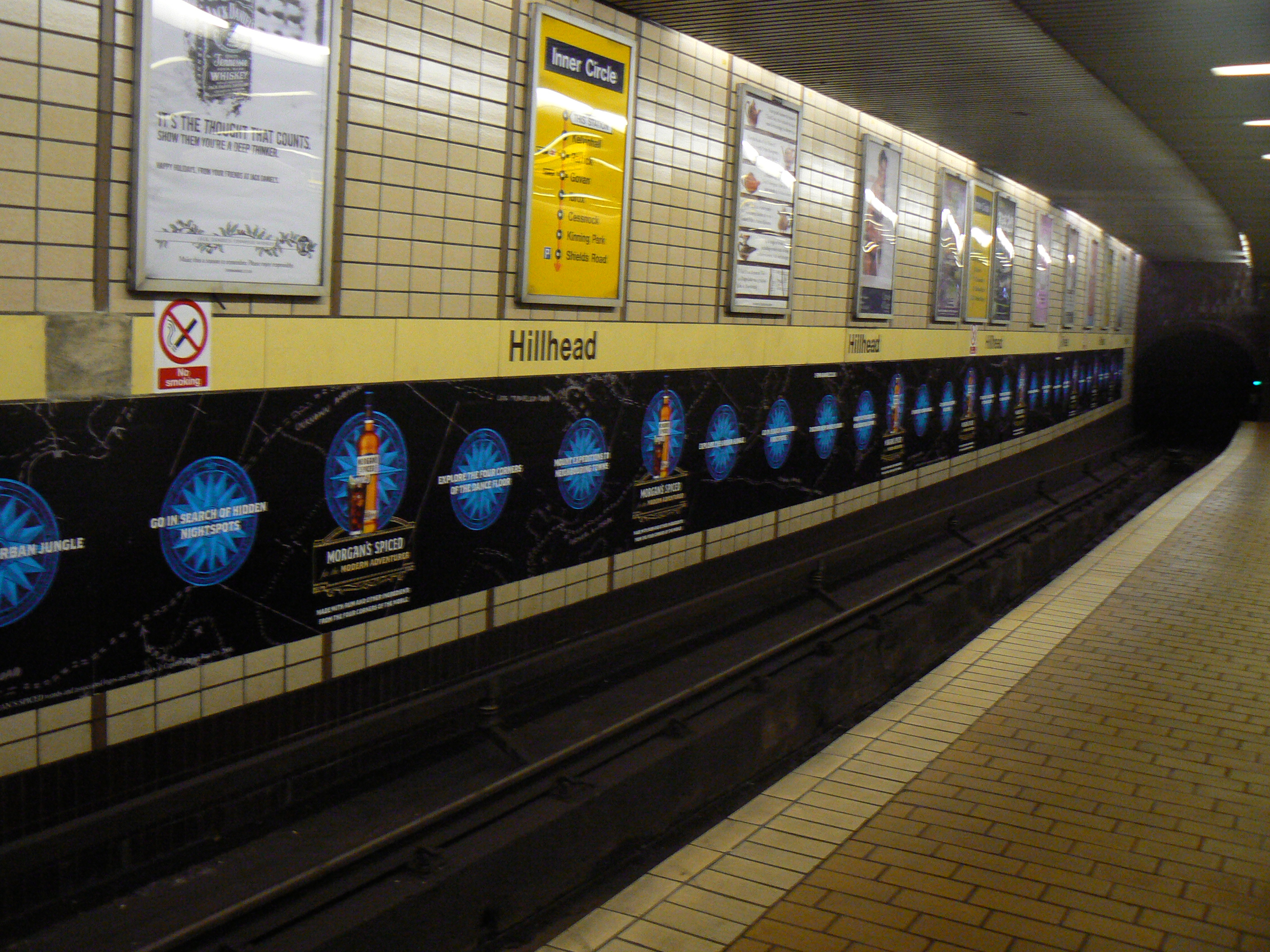 Photograph of the Inner Circle line at Hillhead Subway station, Glasgow, Scotland. Taken from the inner circle platform facing the station wall.